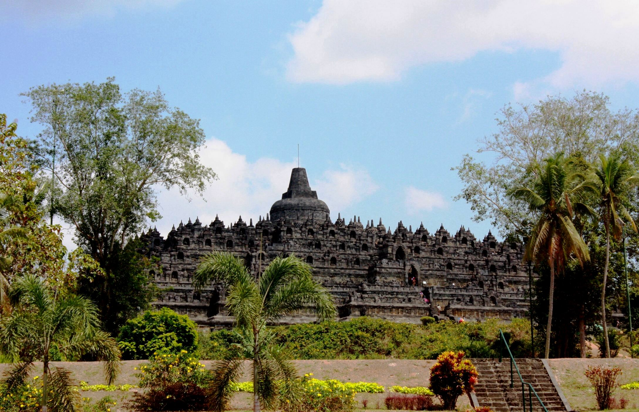 Borobudur is including in the UNESCO protection list from 1991 and UNESCO help the Indonesia for conservation of this temple from 1970